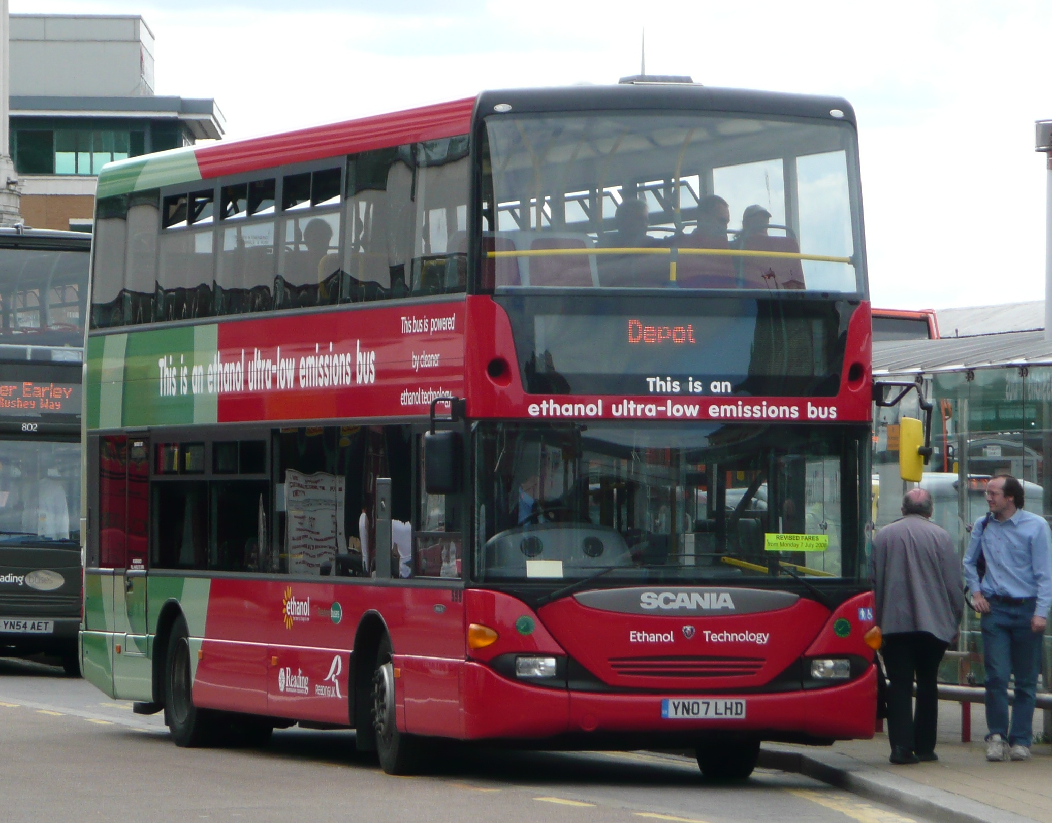 An ethanol fuelled Scania OmniCity demonstrator bus in Reading, Berkshire. At the time the photo was taken the bus was on trial with Reading Buses, who later bought it.